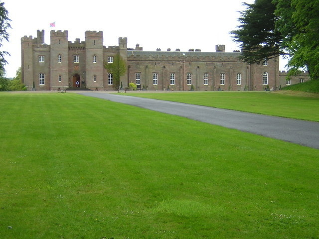 Scone Palace , Perth